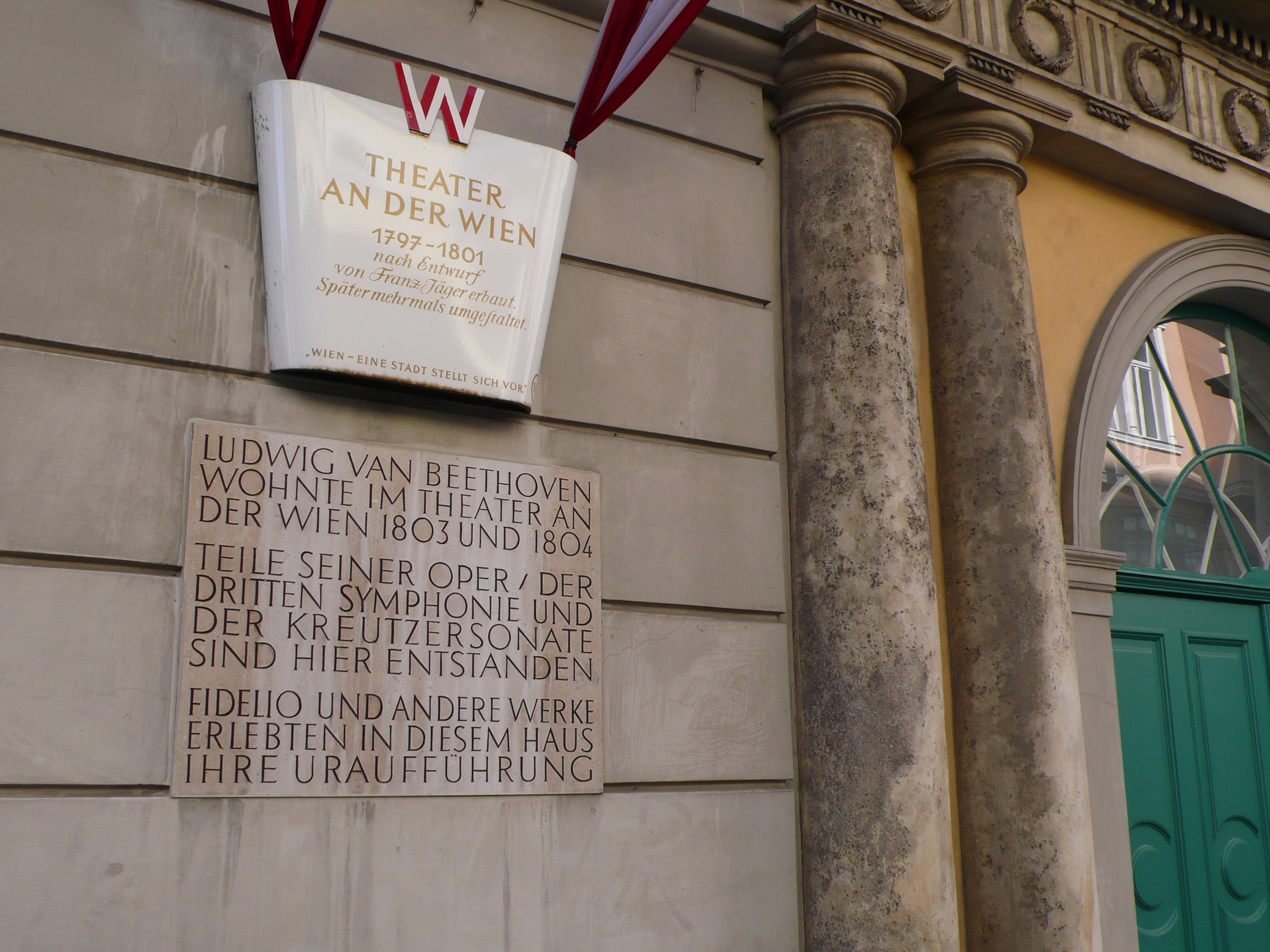 Theater an der Wien, Papagenotor, Wien